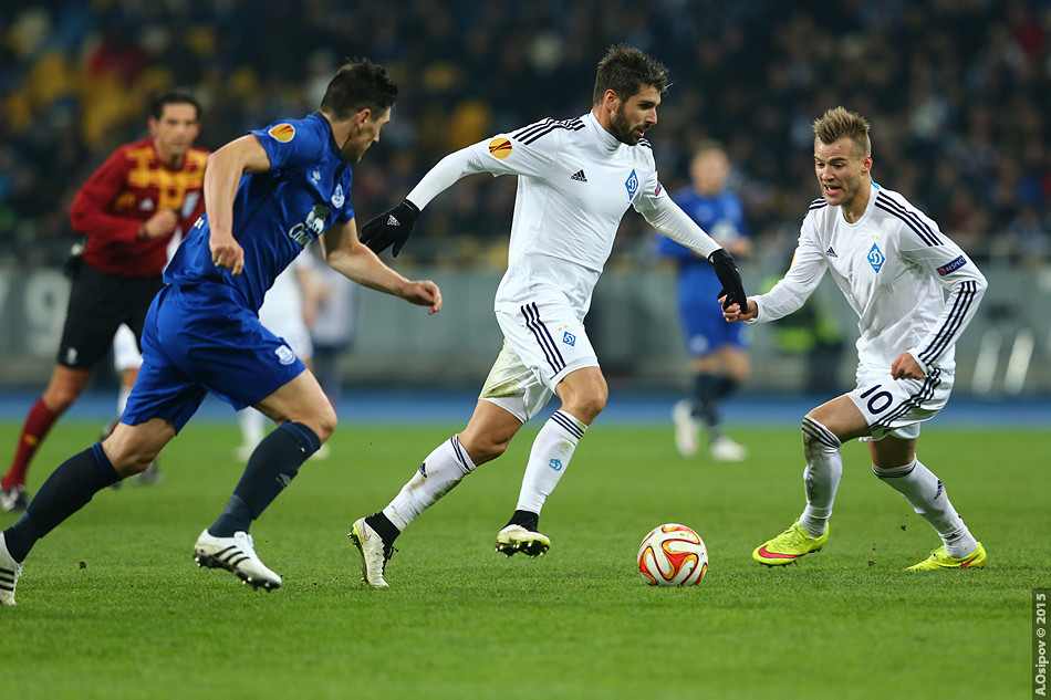 UEFA Europa League 2014-15 1/8 Final NSK Olimpiyskyi - Kyiv 19/03/2015 - 19:00CET (20:00 local time) Round of 16, Second leg Dynamo Kyiv - Everton - 5:2 Goals: Yarmolenko 21 Lukaku 29 Teodorczyk 35 Miguel Veloso 37 Gusev 56 Antunes 76 Jagielka 82 Aggregate: 6-4